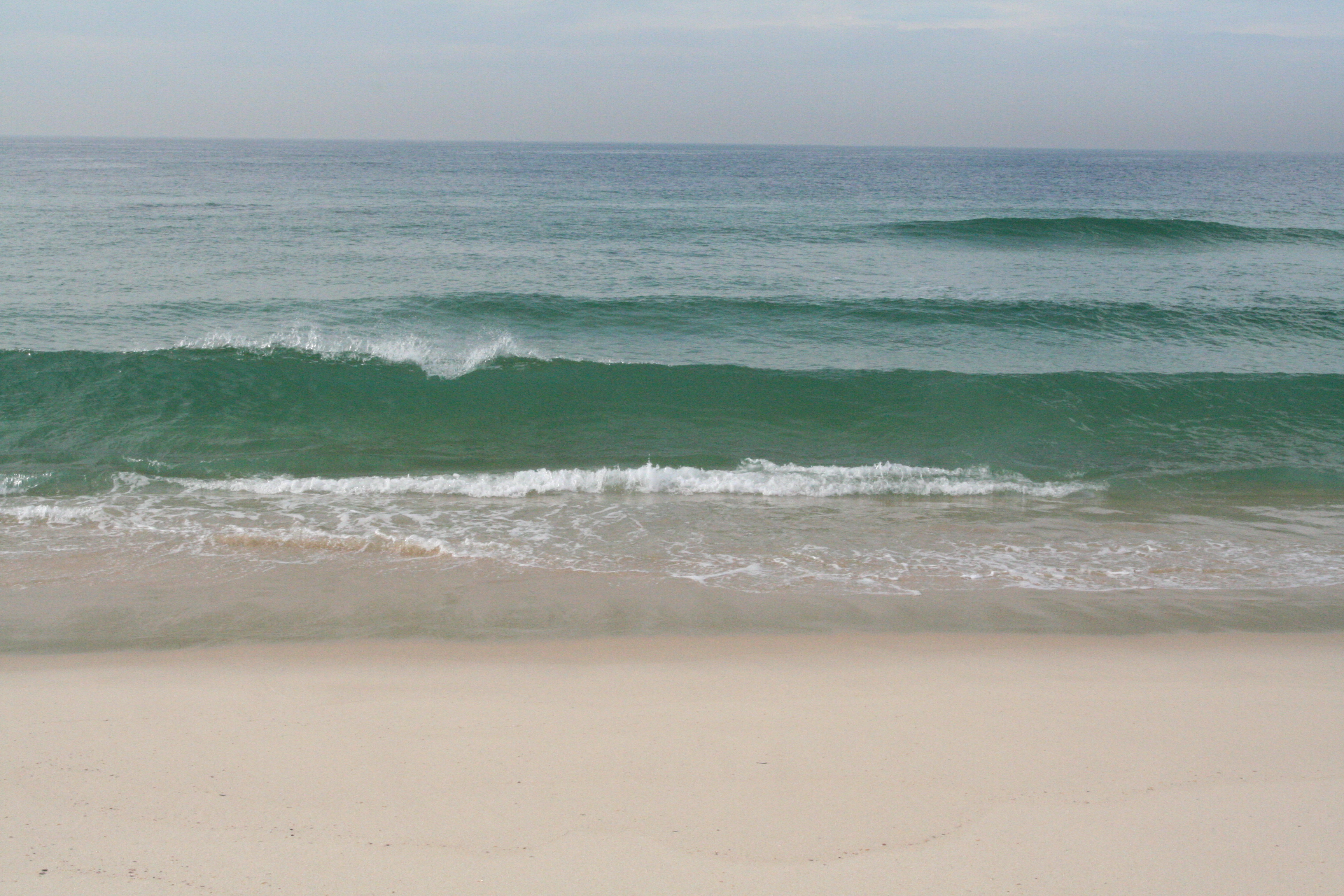 Gentle waves come in at a sandy beach in Cabo Polonio, Uruguay Photo by Johntex, 2006.